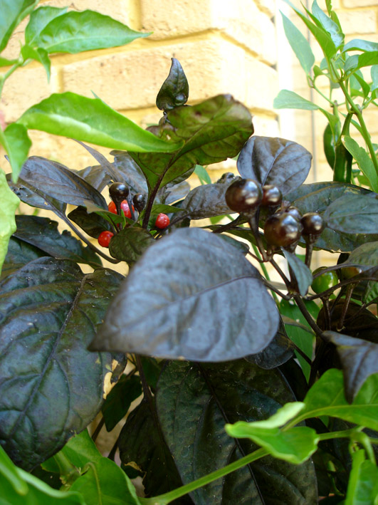 Black Pearl cultivar of chilli pepper, often grown as an ornamental plant.